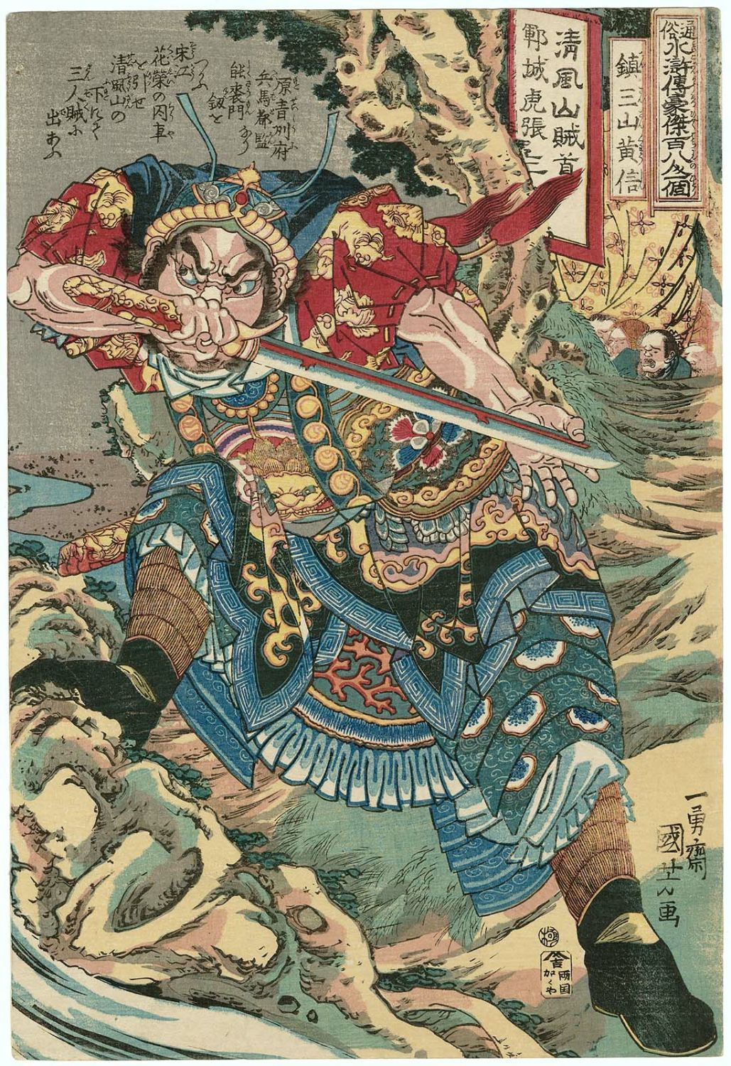 Huang Xin (黃信) standing beside a stream, tests the edge of his sword.